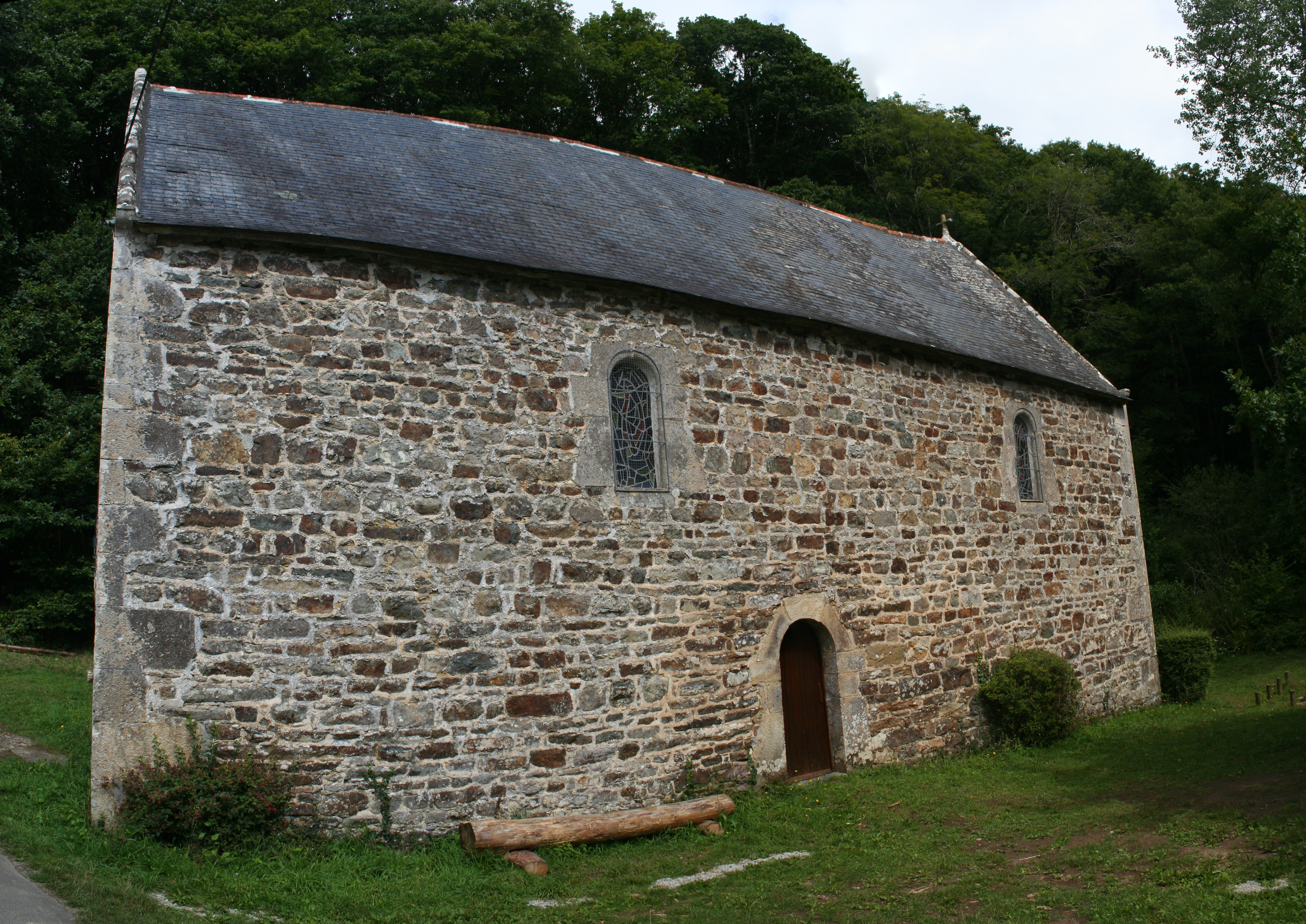 Folgoat Chapel, near the village of Landevenec and the Aulne river, in Finistère département, Brittany, France.